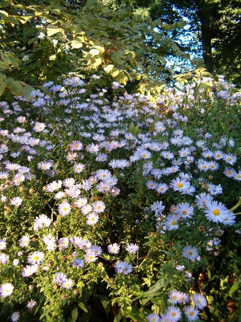 Symphyotrichum novi-belgii Location: Botanical Gardens Berlin Habitus and Inflorescences